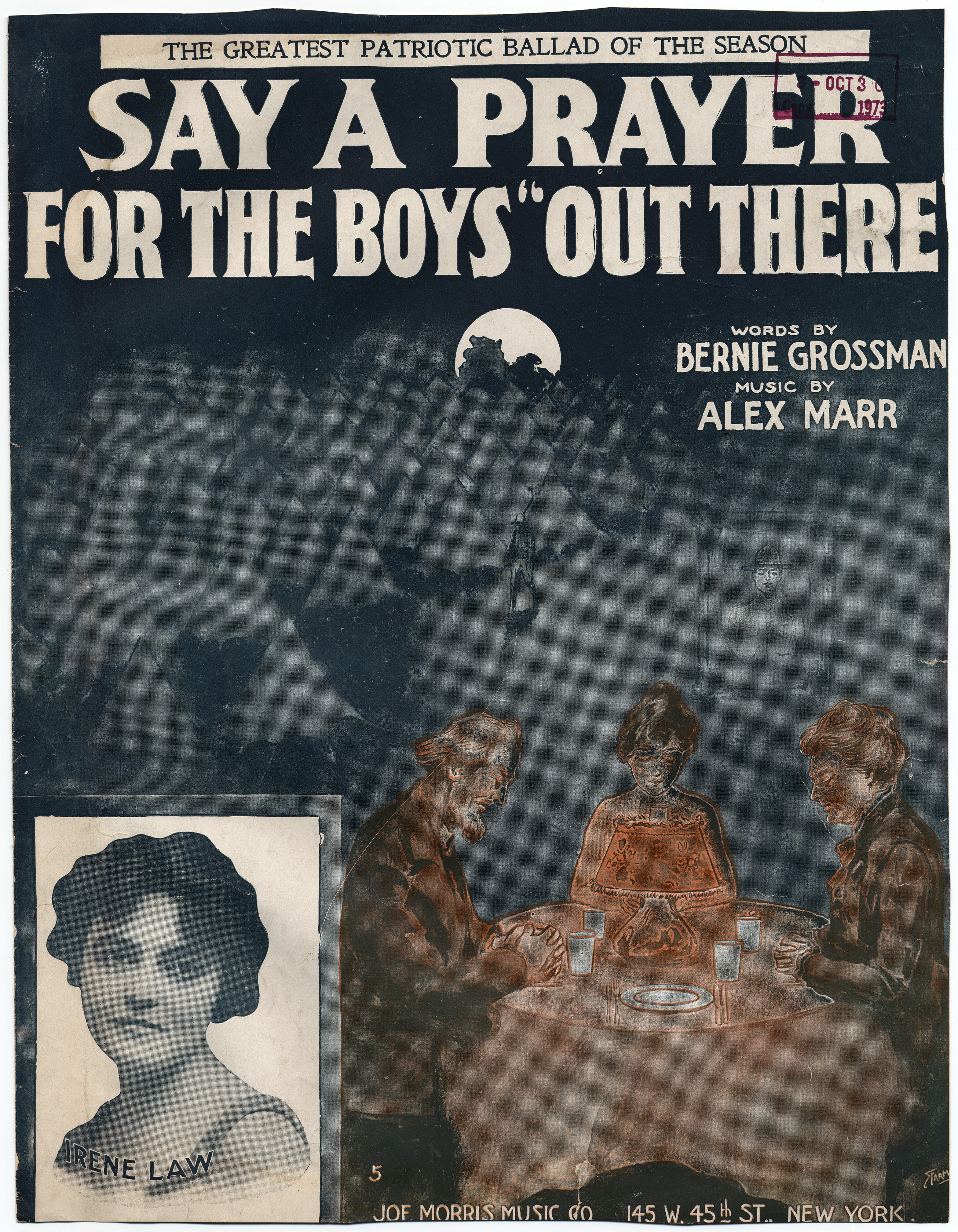 sheet music cover with inset photo of irene law